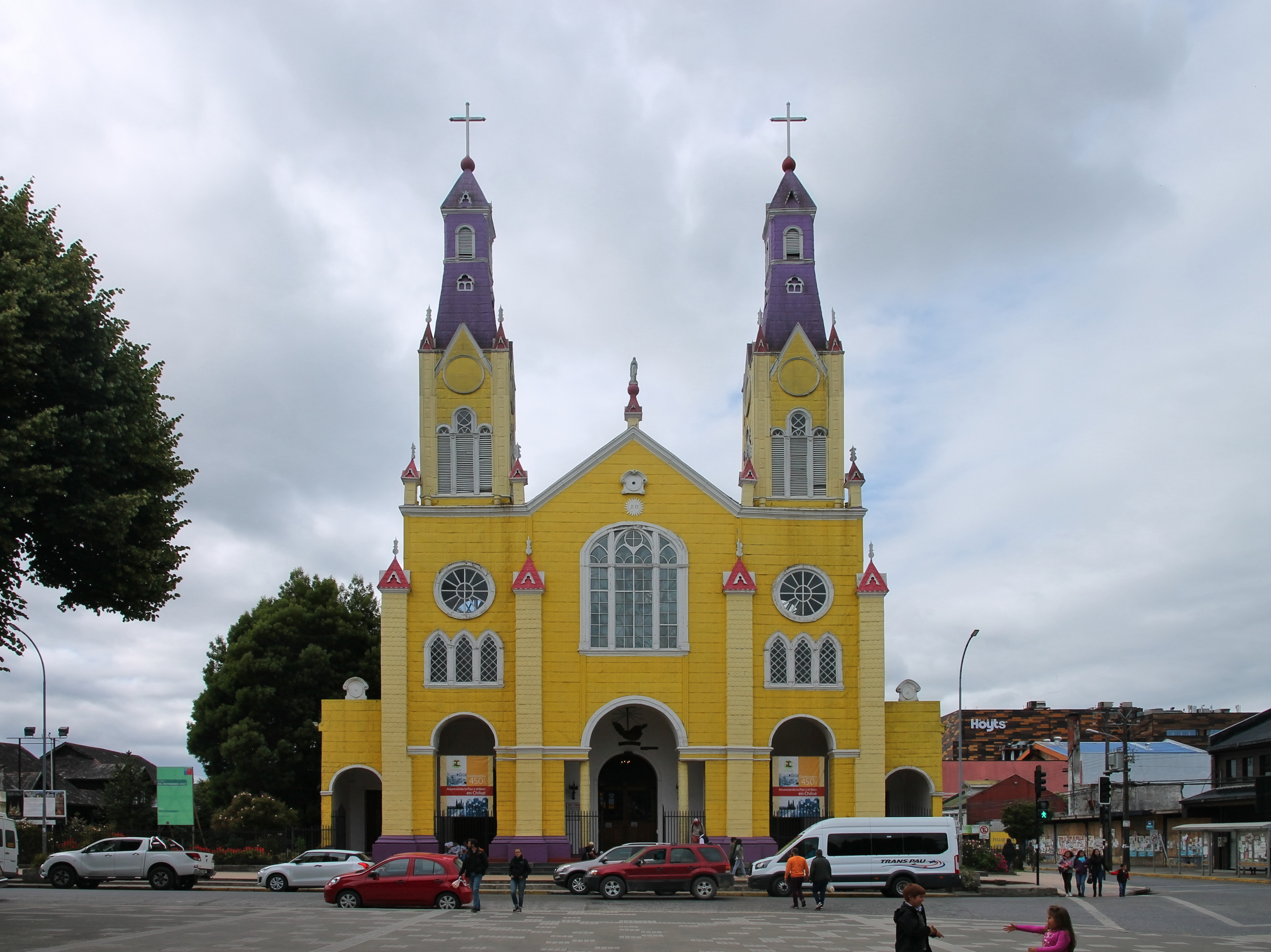 St. Francis Church in Castro, Chiloé